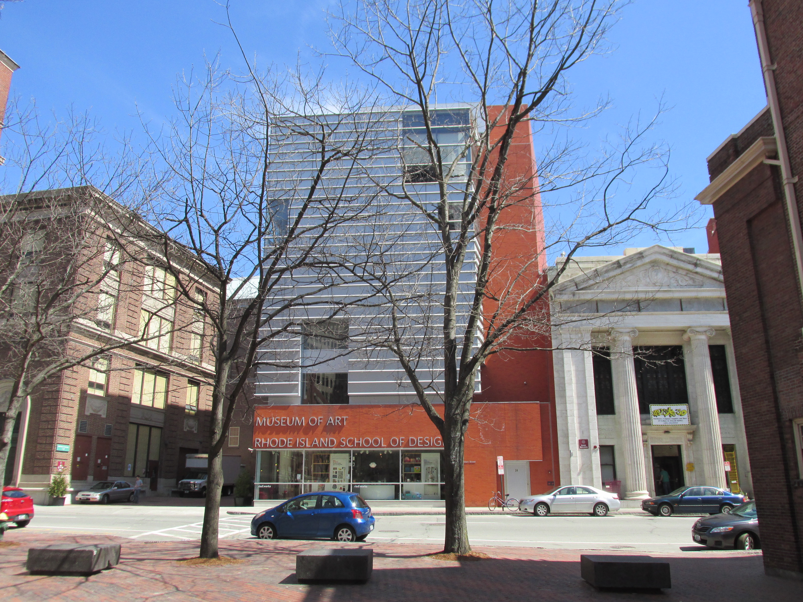 Museum of Art, RISD, Providence Rhode Island - 2014